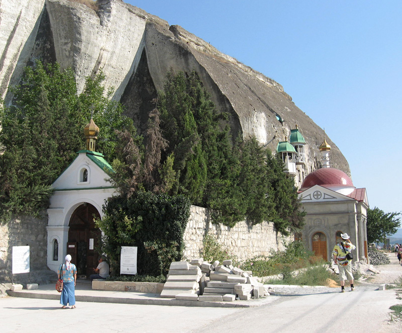 Territory of the monastery